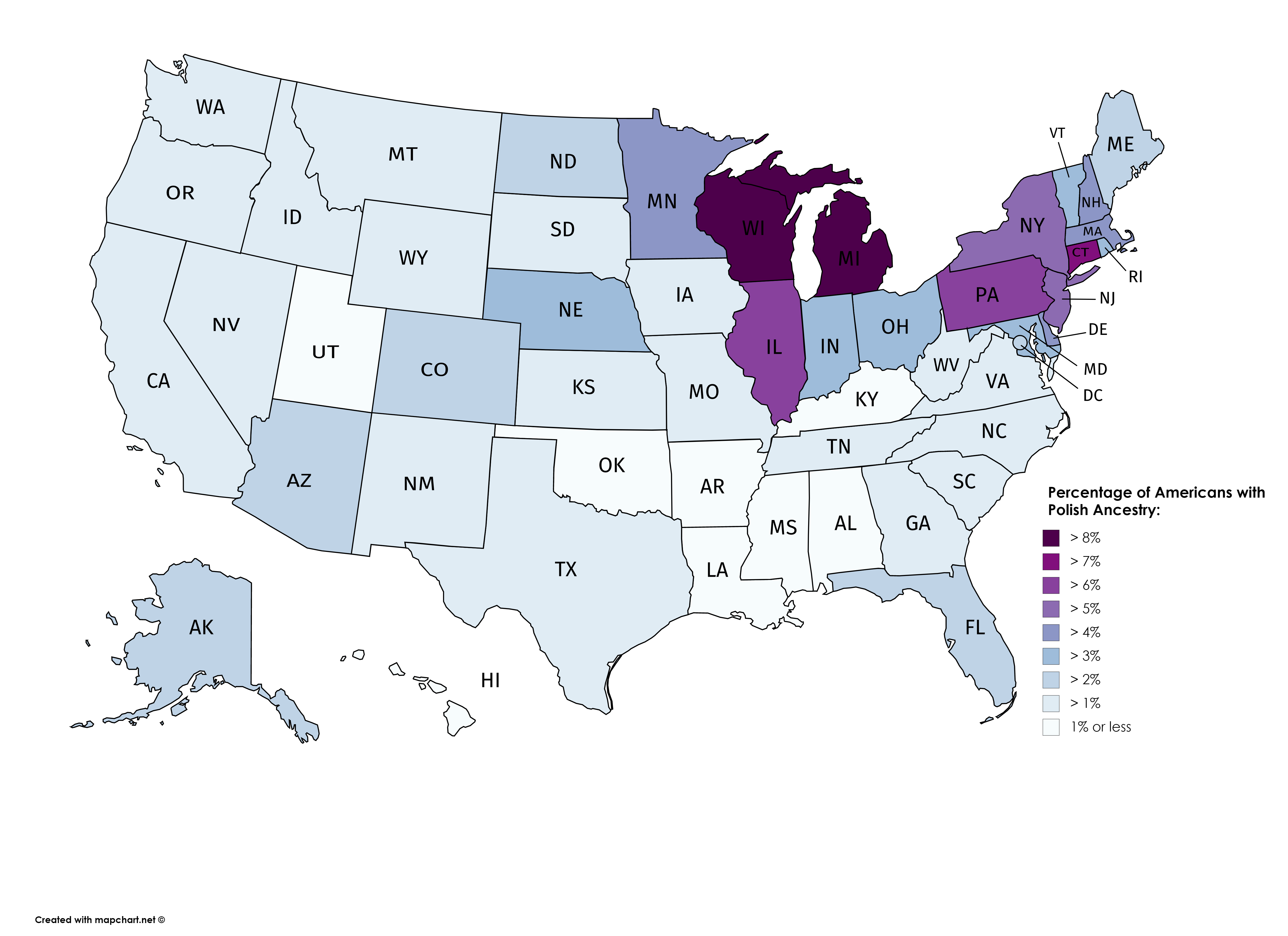 This is a map showing states by the percentage of Americans they have claiming Polish Ancestry in 2018 according to the ACS's 5-year Estimates.